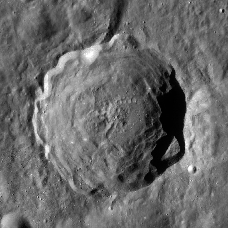 Blazhko crater, on the far side of the moon. LRO Wide Angle Camera mosaic.